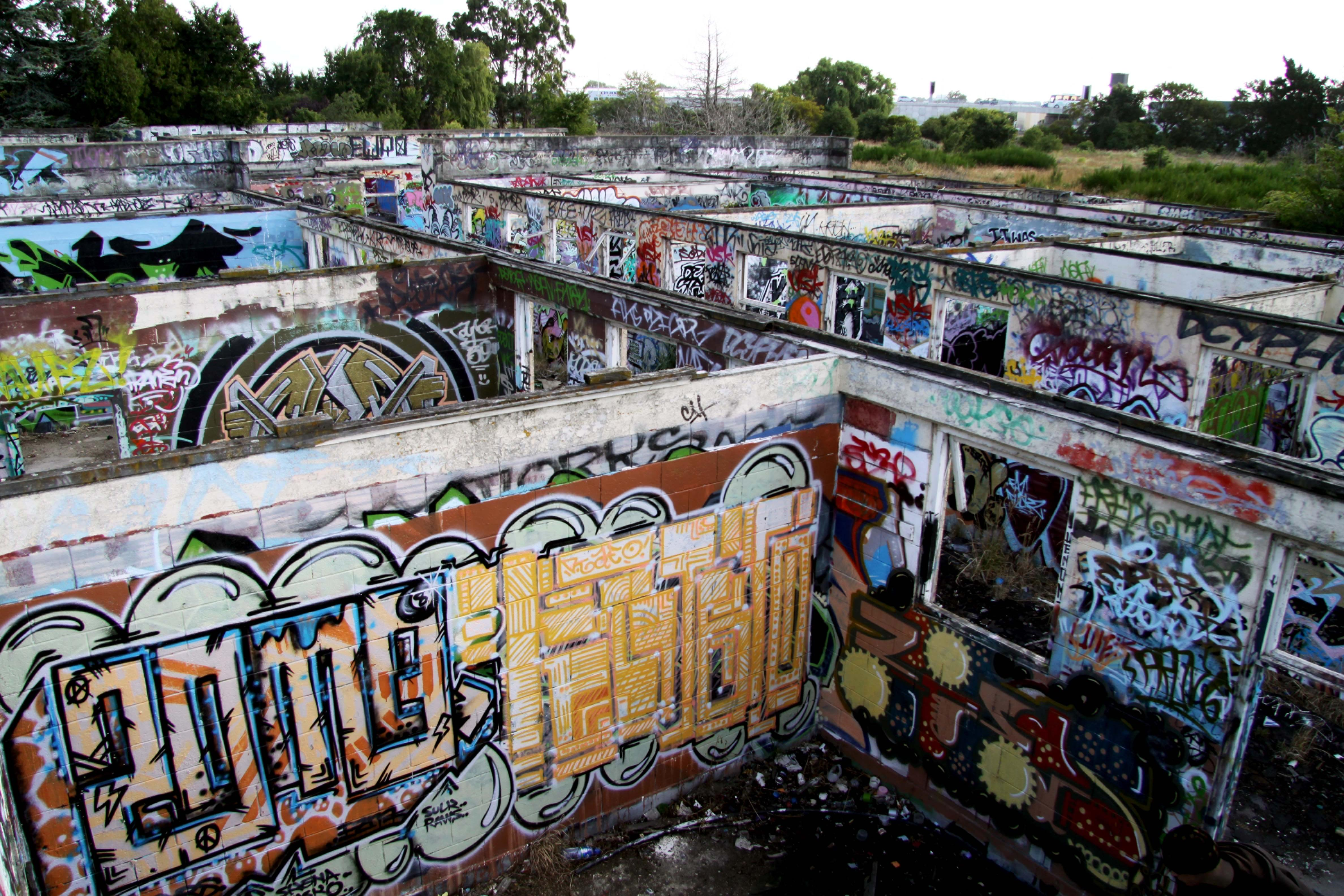 A different look at the Christchurch Stock Yards, a brillant place if you ask me is like walking through an art gallery (an unconventional one at that) and it is forever changing